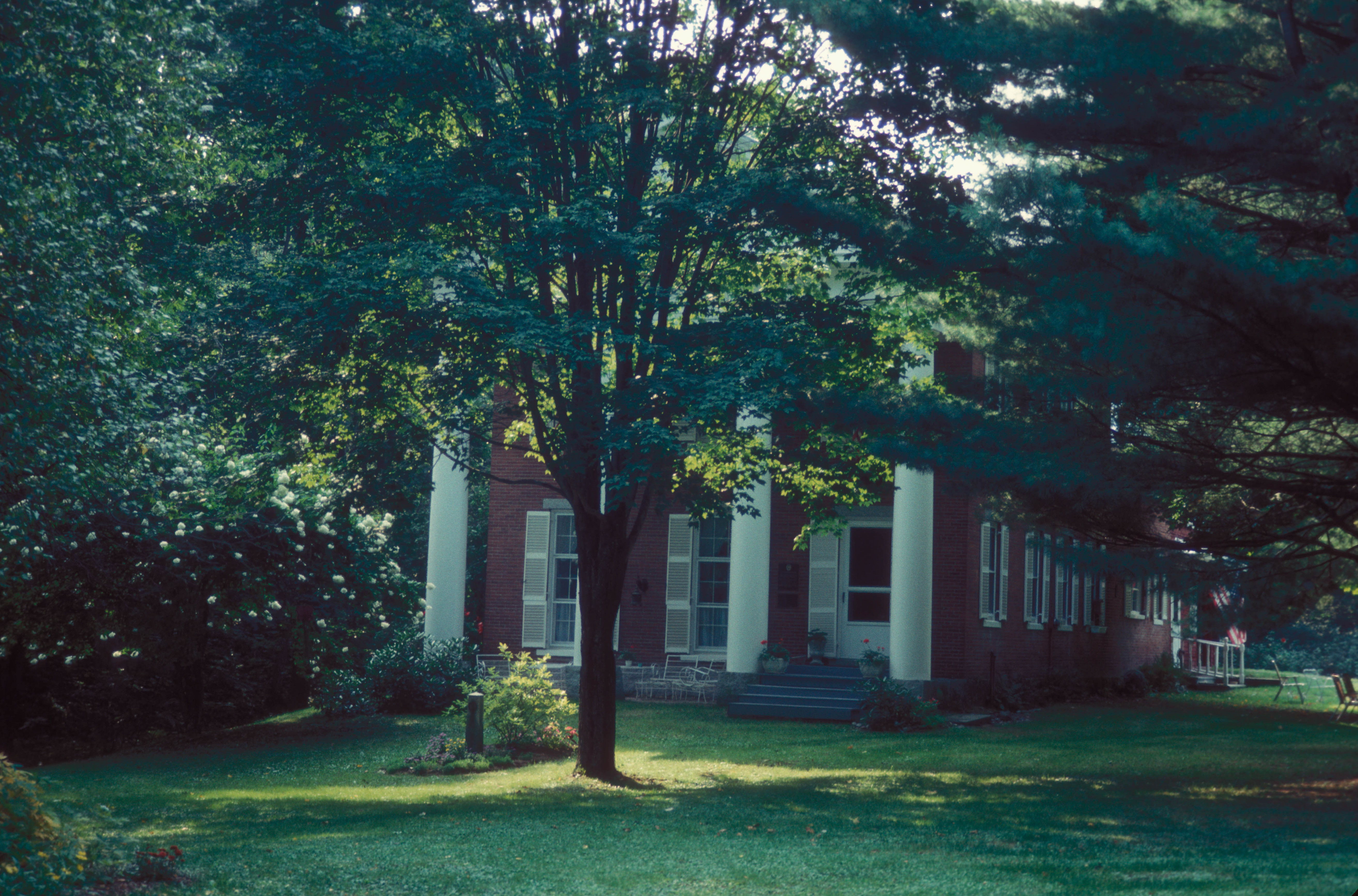 1845; BRICK GREEK REVIVAL RESIDENCE OF REBECCA CLARK, CHILDREN’S BOOK AUTHORESS UNDER THE PSEUDONYM OF SOPHIE MAY